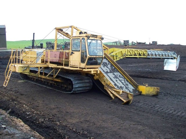 Peat Harvester at Ryeflat Moss. One of several items of peat extraction equipment at this barren Lanarkshire location.